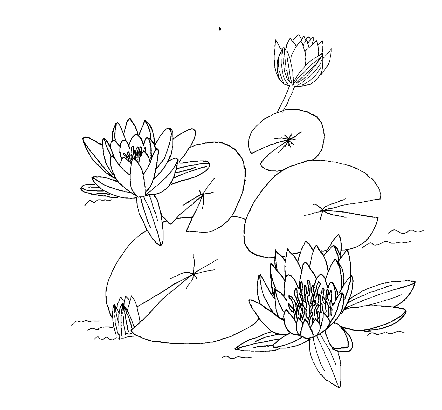 Nymphaea alba, August 15, 1976, Botanical Garden, Bergen, Norway Pen drawing on paper by Elly Waterman Pentekening op papier door Elly Waterman